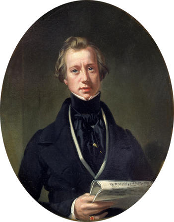 John Orlando Parry c. 1840